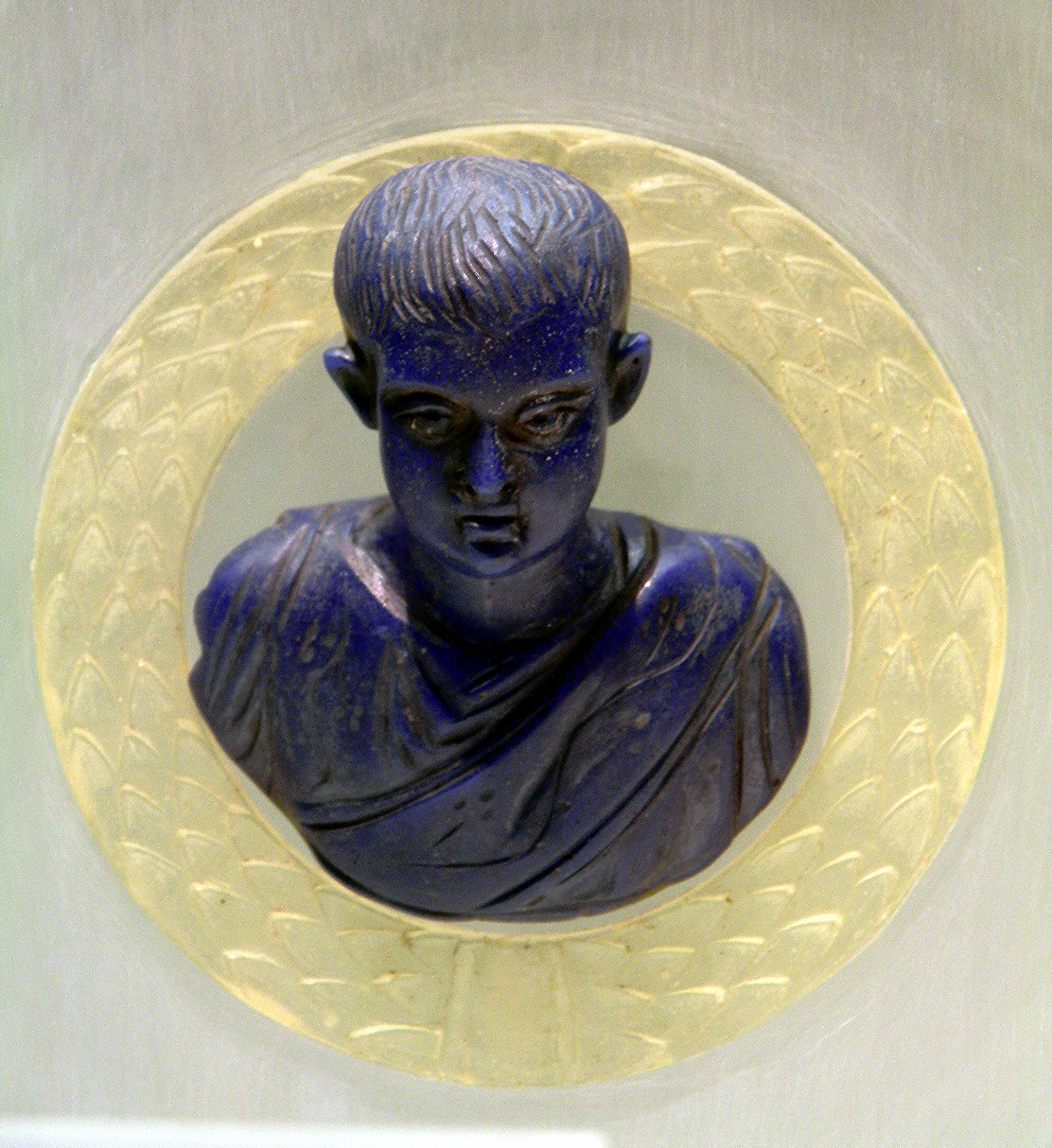 Bust of Prince Constantius II in blue glass, Romisch-Germanisches Museum, Cologne